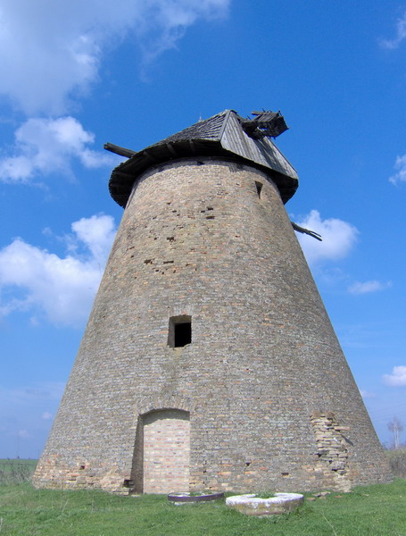 Abandoned windmill in Melenci, Vojvodina, Serbia